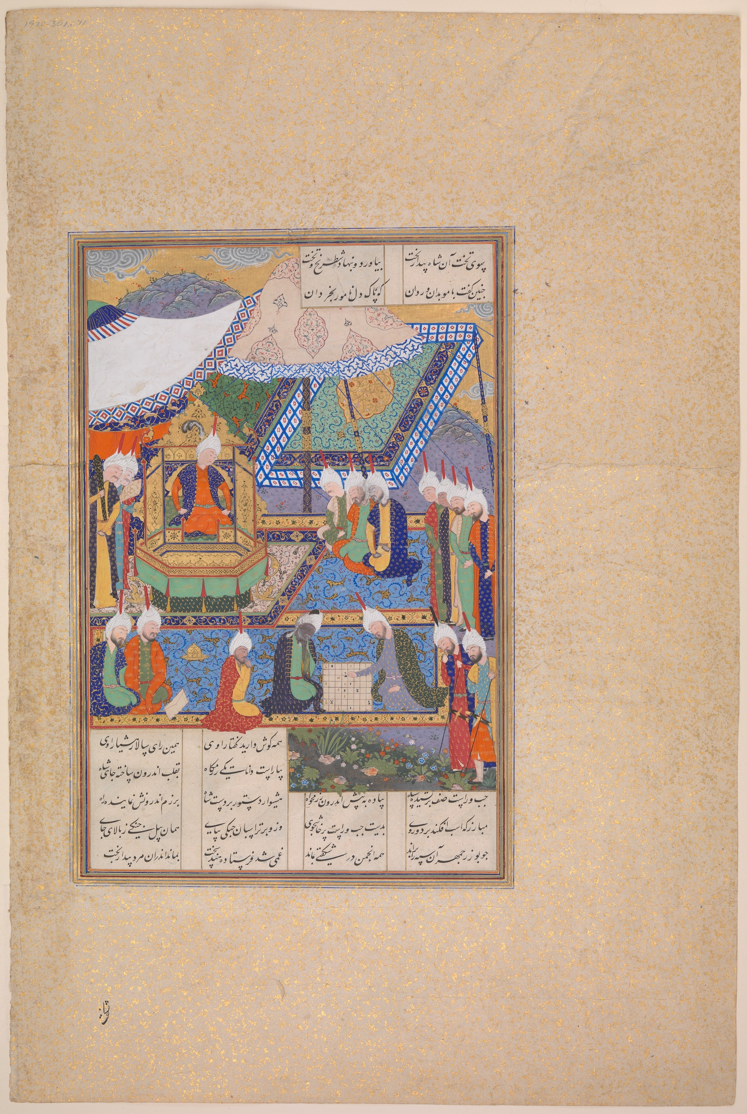 Folio from an illustrated manuscript; Codices